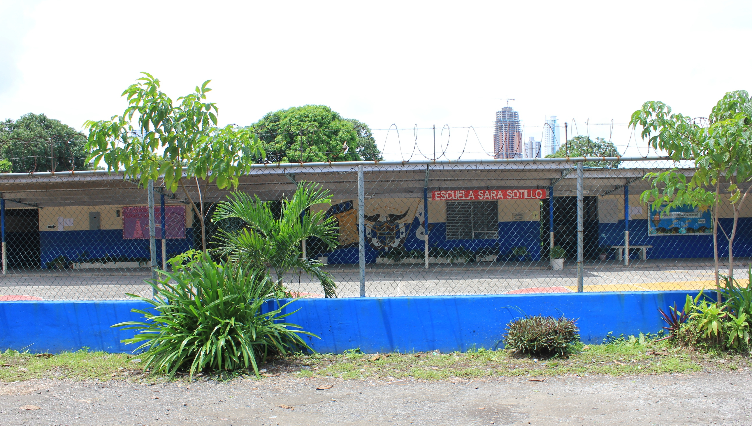 Sara Sotillo School, Panama City, Republic of Panama